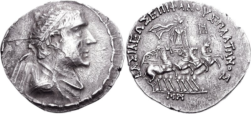 Coin of the Greco-Bactrian King Plato